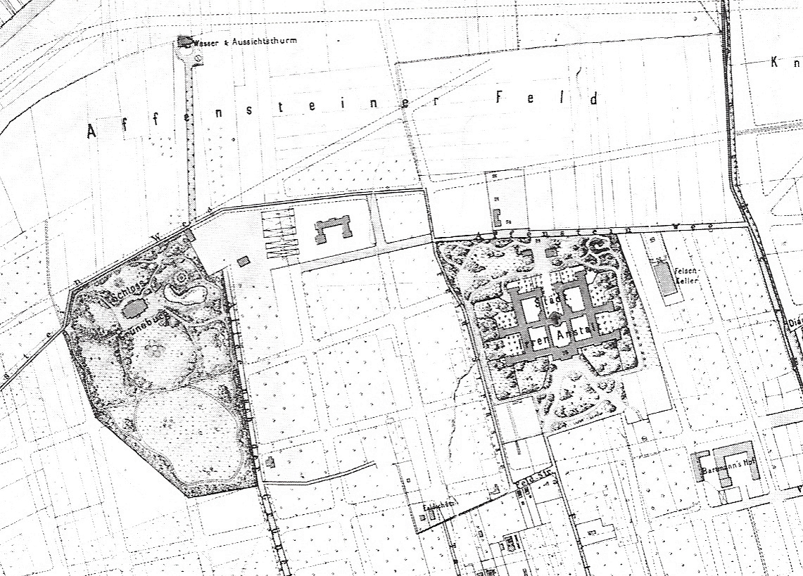 Frankfurt/M., Germany: Map of the Grüneburg Palais and the Affenstein (psychiatric Institution) in the Westend. Detail of a town map created in 1887